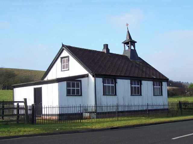 St Augustine, Draycott-in-the-Clay